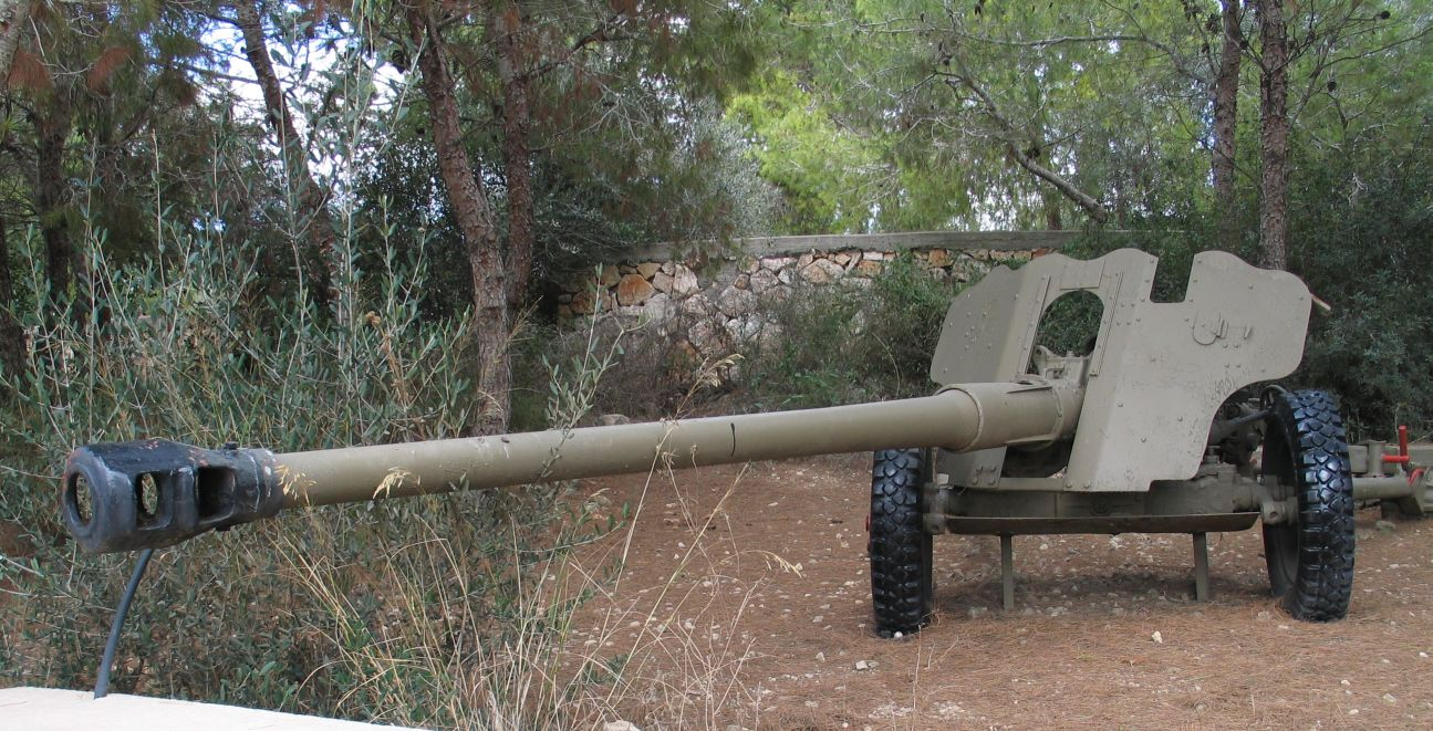 Description: Soviet D-44 85 mm field cannon in Beyt ha-Totchan, Zichron Yaakov, Israel. 2005. Source: Photo by me, User:Bukvoed.